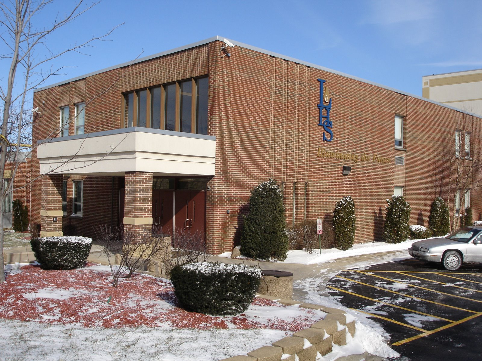 A view near the back entrance of Lemont High School in Lemont, IL.